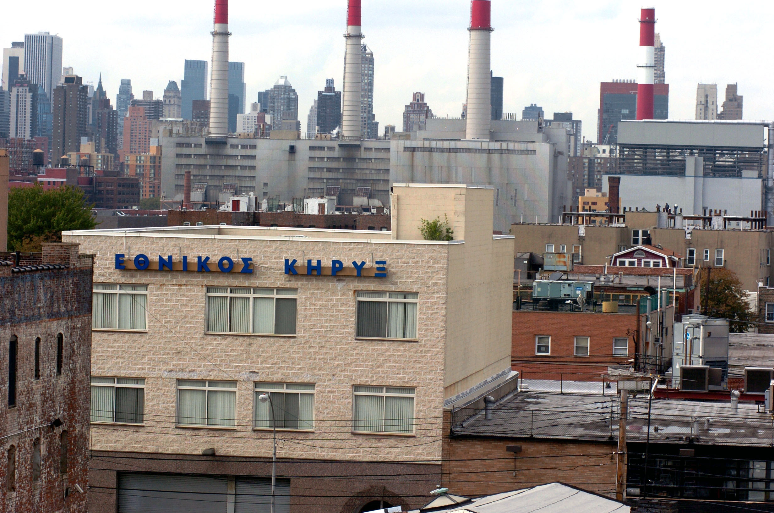 Το κτίριο του Εθνικού Κήρικα.